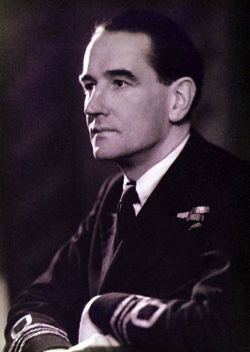 Lt. Commander Ralph Izzard, RNVR (circa 1944)